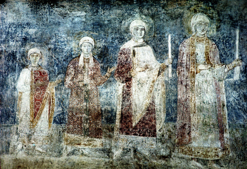 Daughters (or sons) of Yaroslav the Wise